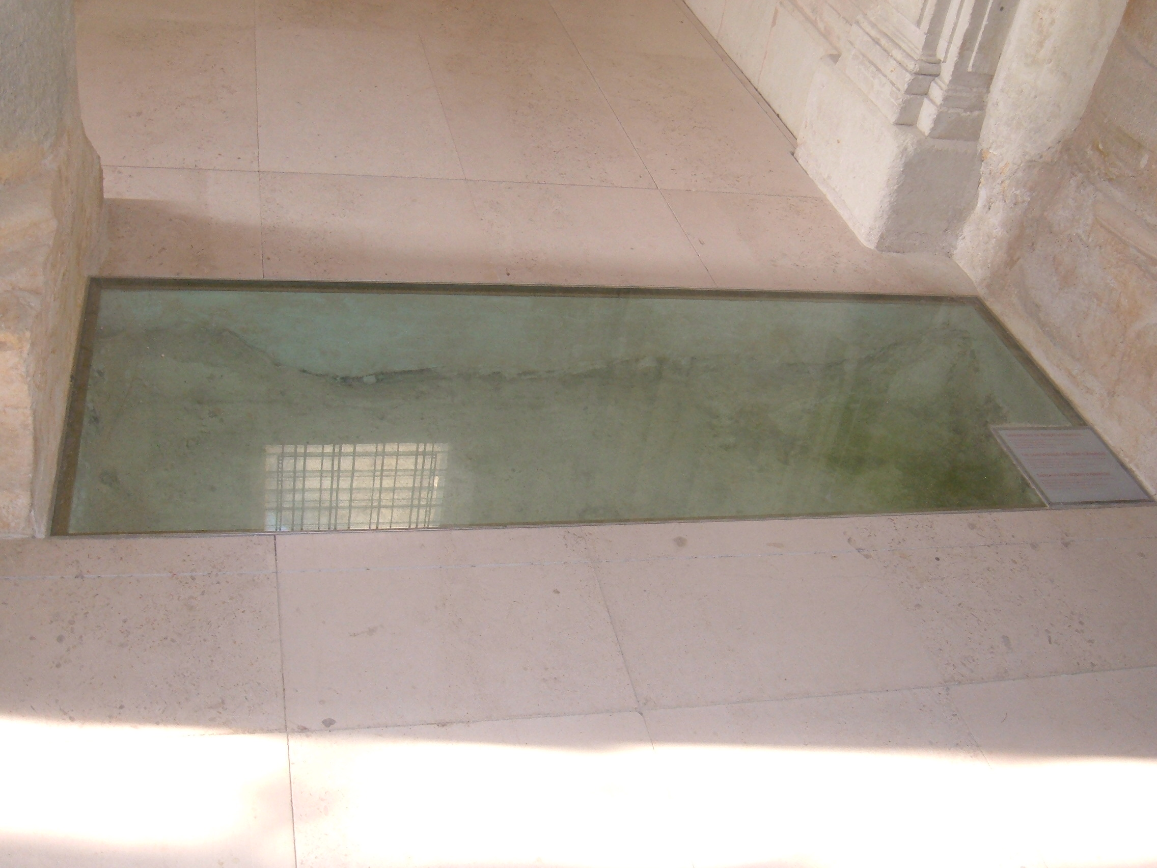 The sarcophagus of Robert of Arbrissel in the church of Fontevraud Abbey, Fontevraud-l'Abbaye, Anjou, France.